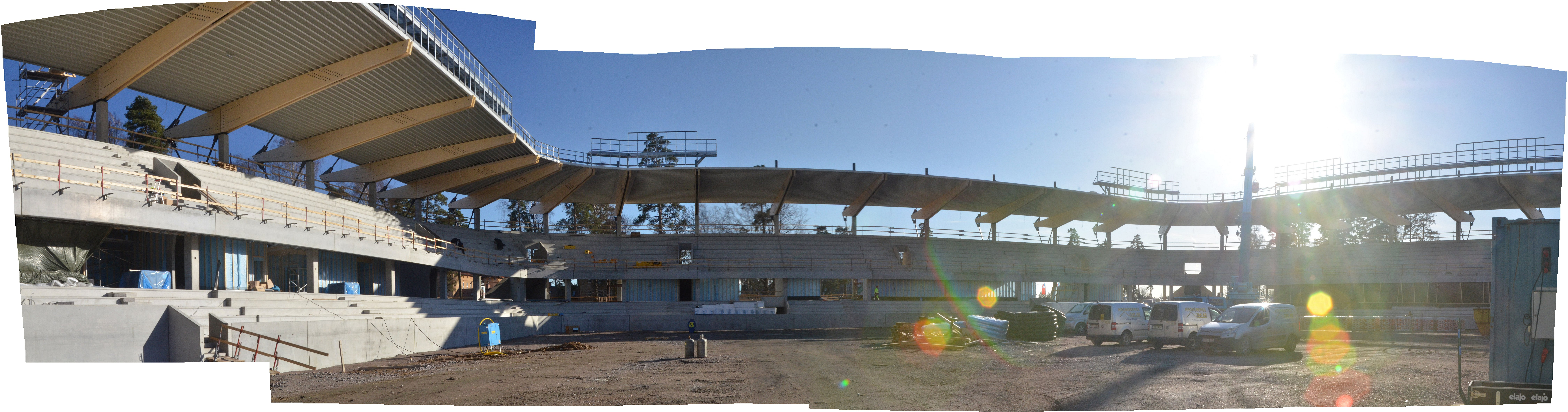 Panoramic view of the stand of Östers IF's new stadium Myresjöhus Arena, during UEFA site visit March 13 2012.